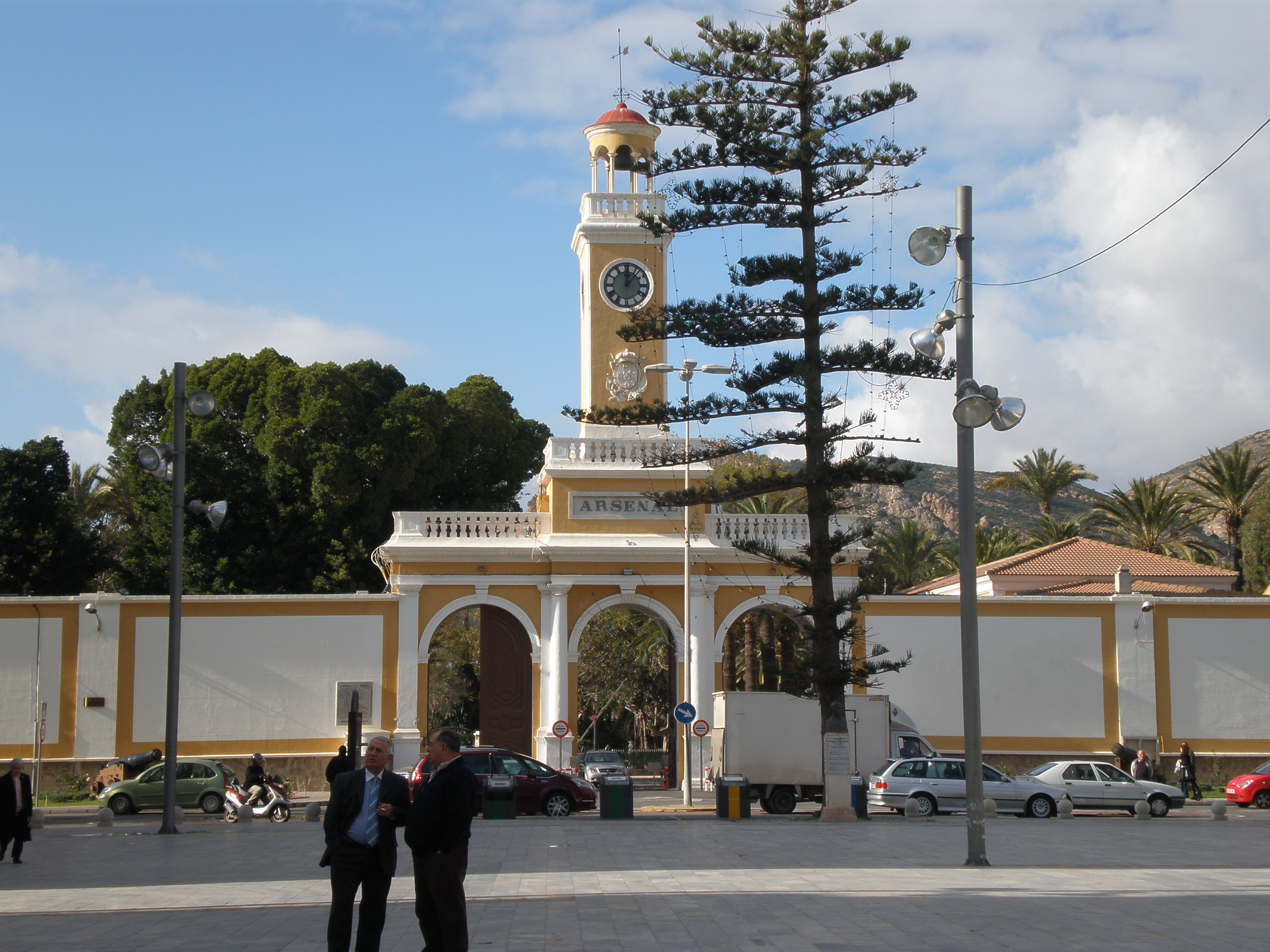 The Arsenal entrance